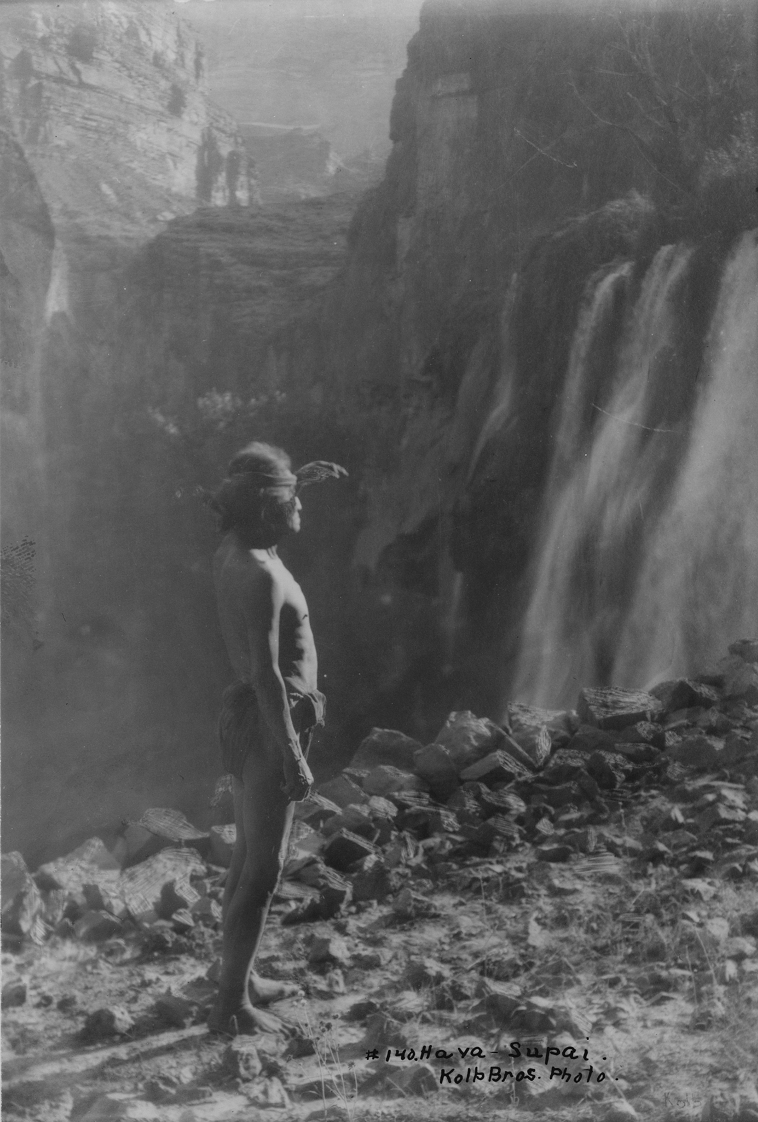 Havasupai man facing a waterfall on Havasu Creek, in the Grand Canyon region, Arizona. Kolb Studios, 1911.